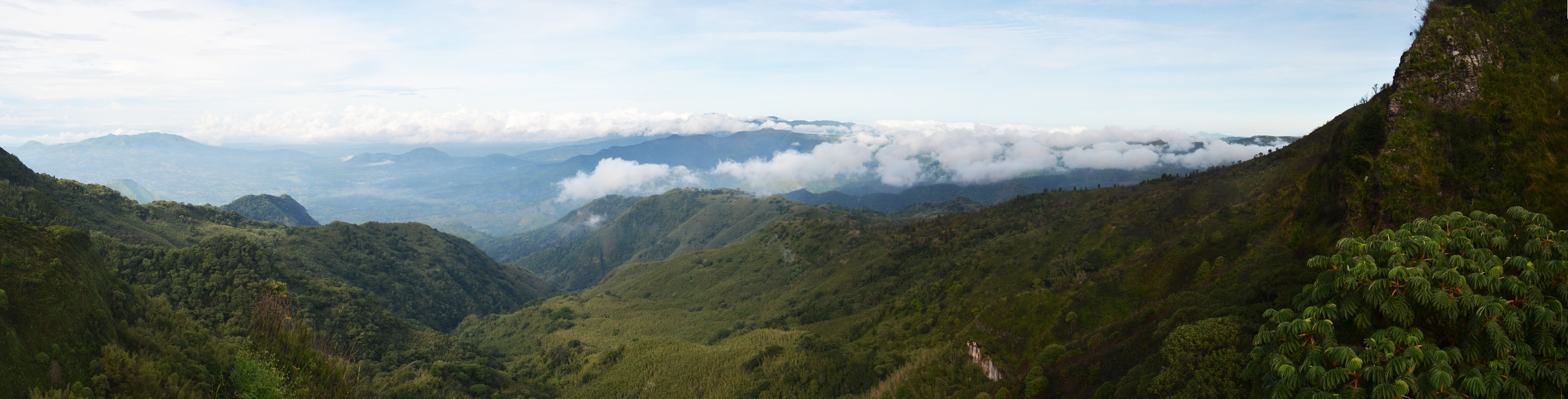 Panorama of the Kipengere Range (also known as Livingstone Mountains) taken from the edge of the Kitulo Plateau looking west.